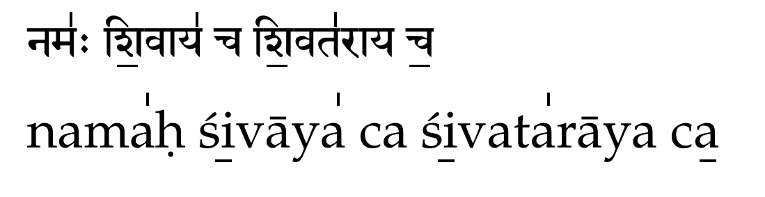 Om Namah Shivaya as given in the Sri Rudram Hymn